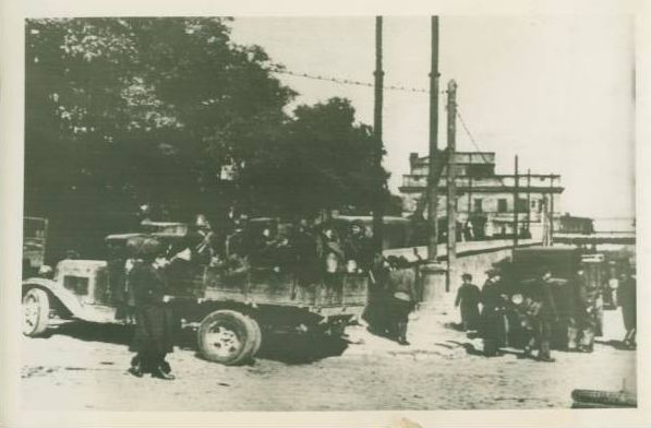 Romanian troops on Odessa street (Polsky spusk)